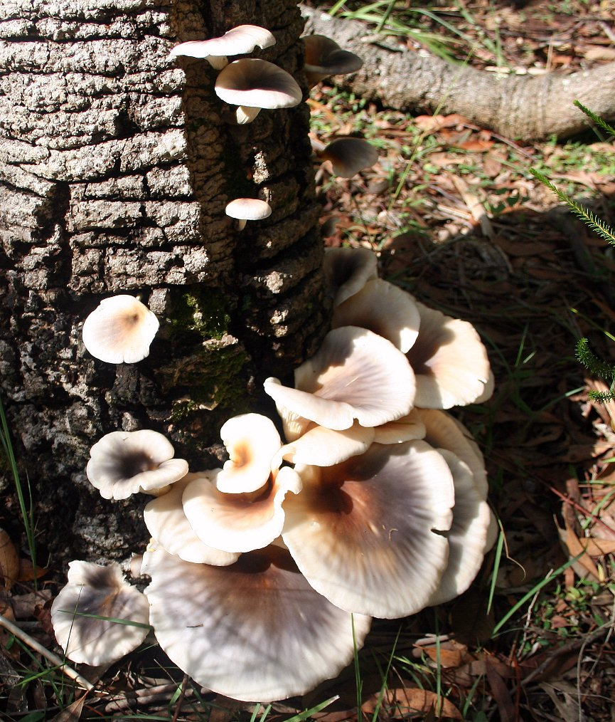 Omphalotus_nidiformis on dead banksia serrata stump - Sylvan Grove native reserve. Picnic Pt, NSW